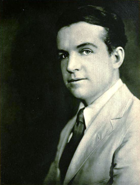 Actor Pell Trenton on page 19 of the April / May 1920 Motion Picture Magazine.